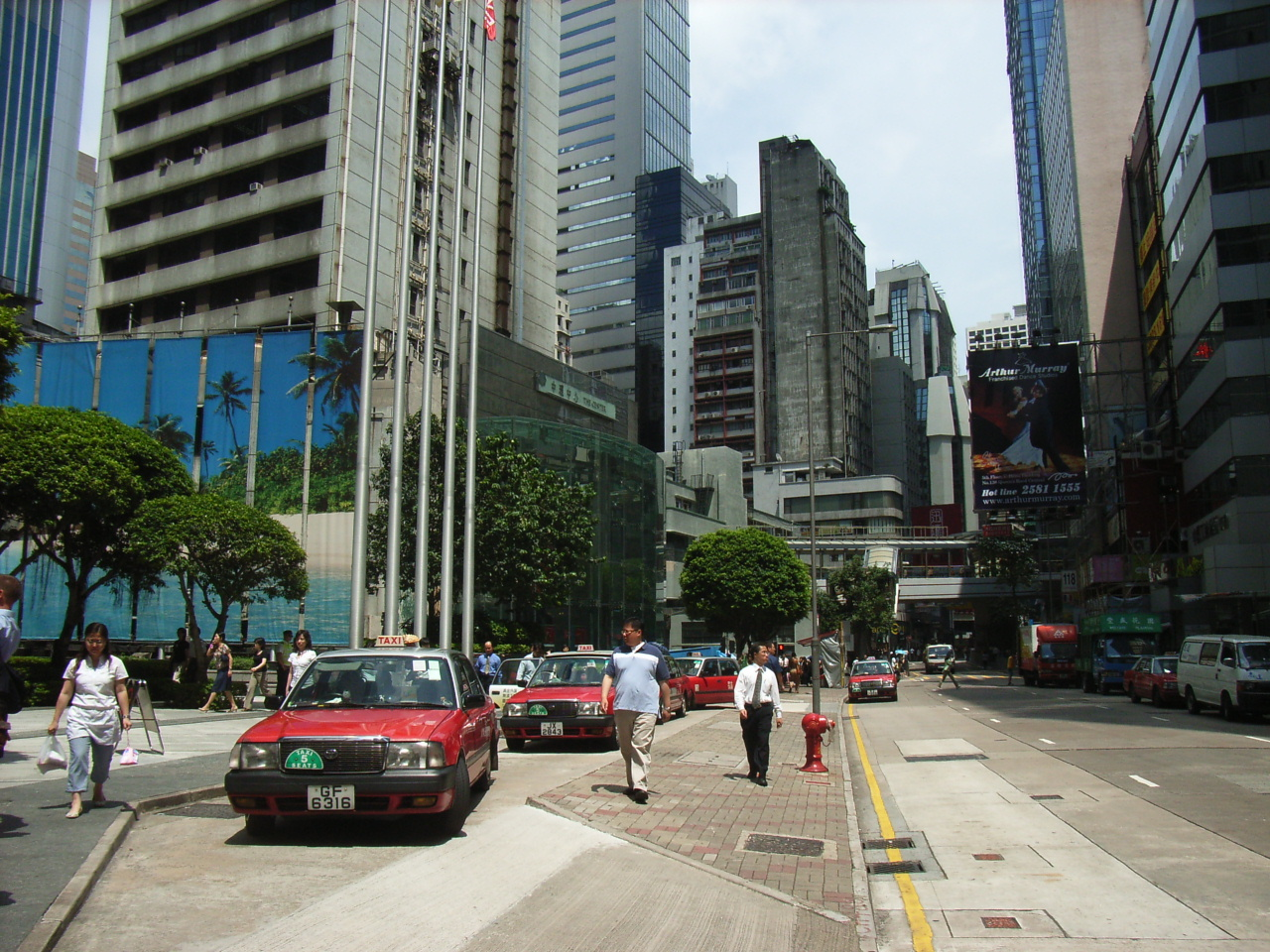 Taxi station at the front door of the Center, 119 Queen's Road Central, Hong Kong By KennethTom